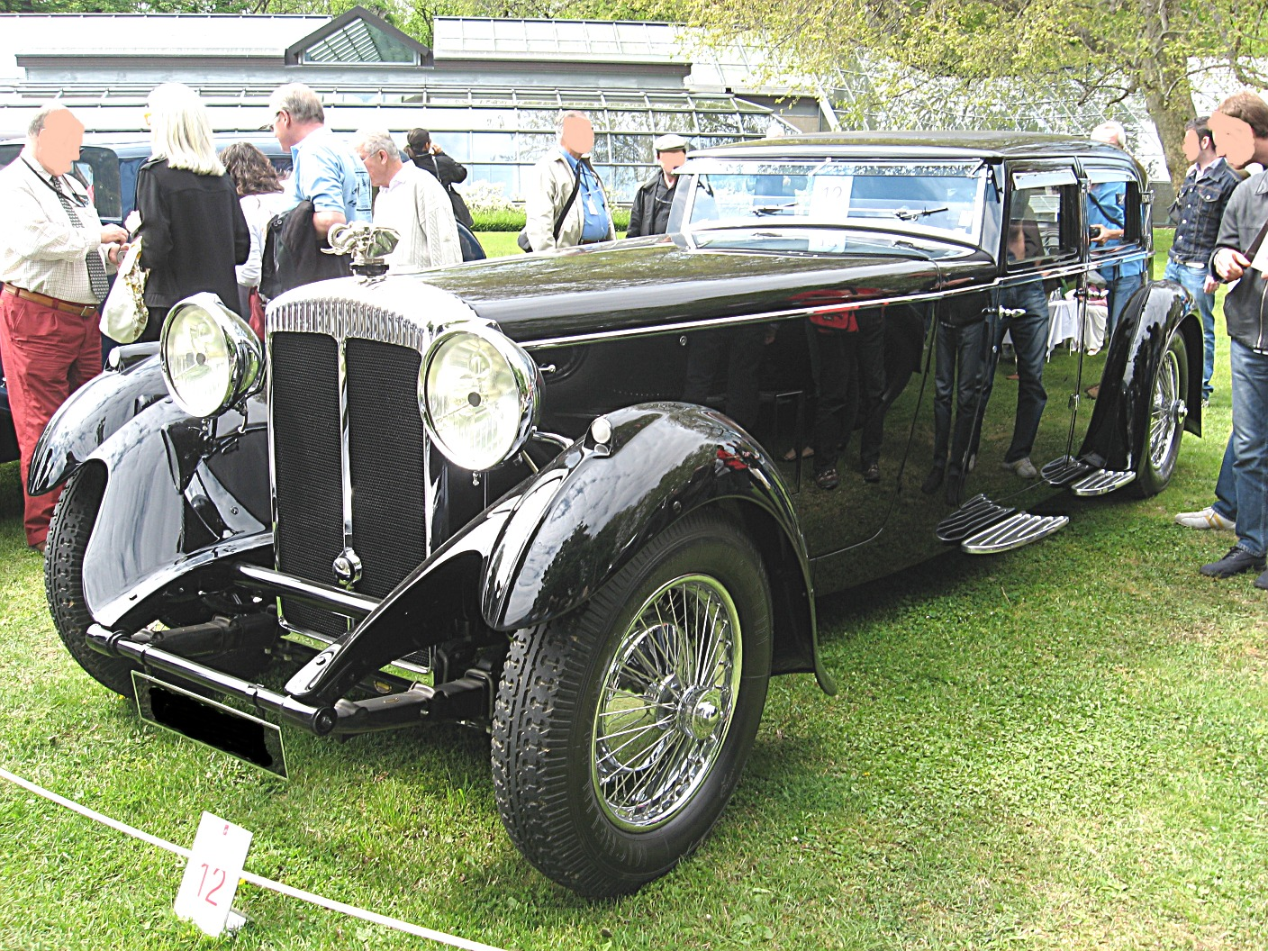 Subject:Daimler Double Six 40/50 (1932), bodied by Gurney Nutting Coachbuilders, designed by Martin Walter to look as if it had a lowered chassis to the order of Herbert Wilcox for actress and film star Anna Neagle later re-engined with a Buick power unit Date:April 27th, 2008 Event:Concorso d’Eleganza”Villa d’Este” 2008 Place/Country: Cernobbio (CO), Italy